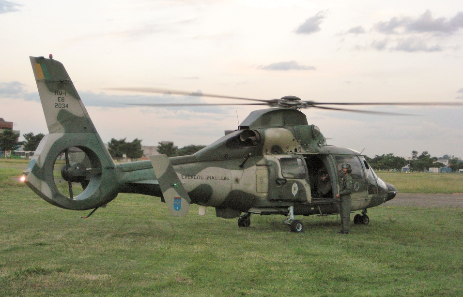 Eurocopter AS565 Panther in service on Brazilian Army aviation.